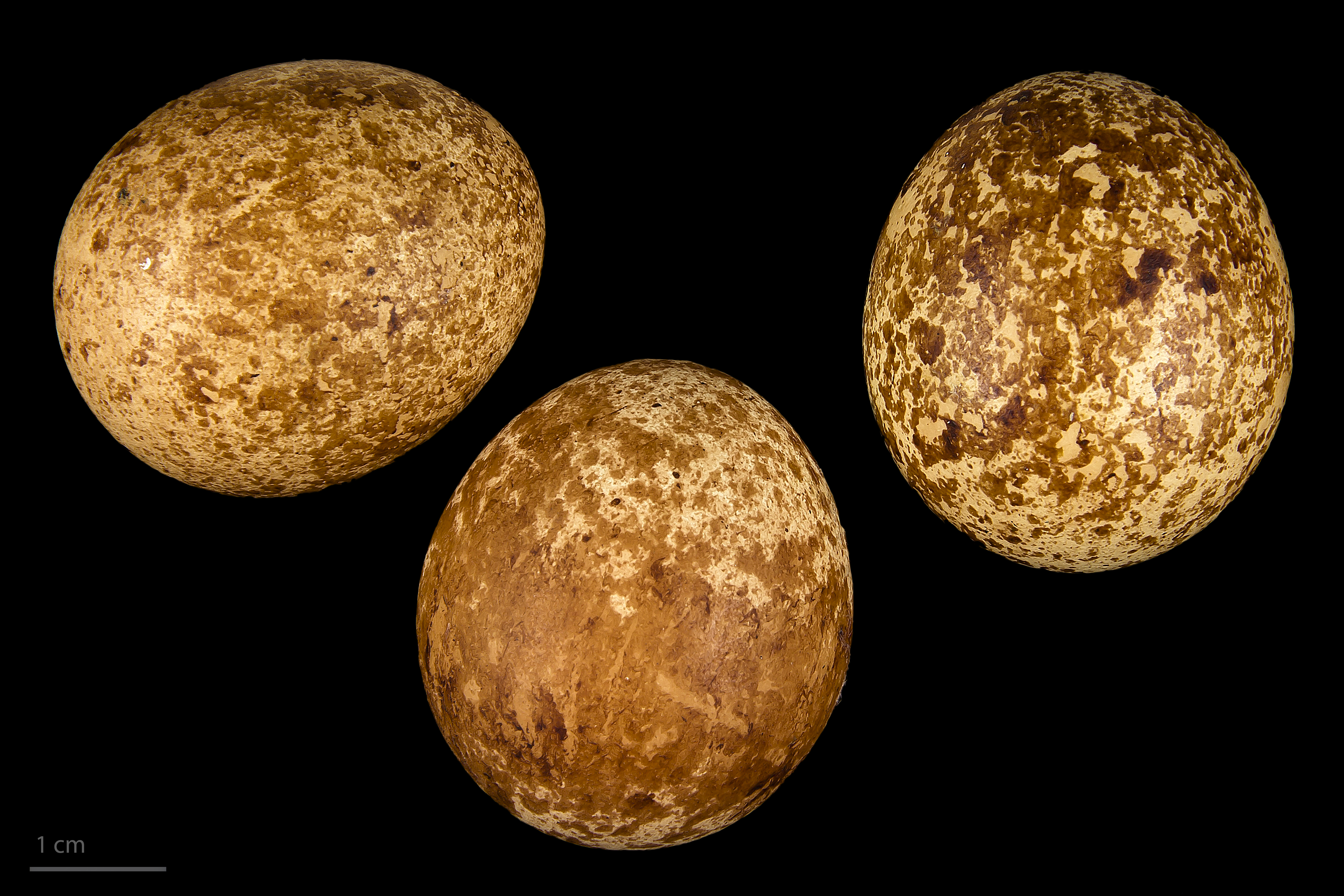 Eggs of Falco naumanni Three specimens of the same spawn ; collection of Jacques Perrin de Brichambaut.